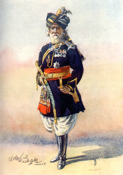 Officer of 15th Lancers (Cureton's Multanis). Watercolour by AC Lovett 1910. Published in MacMunn & Lovett, Armies of India, 1911, p. 38.